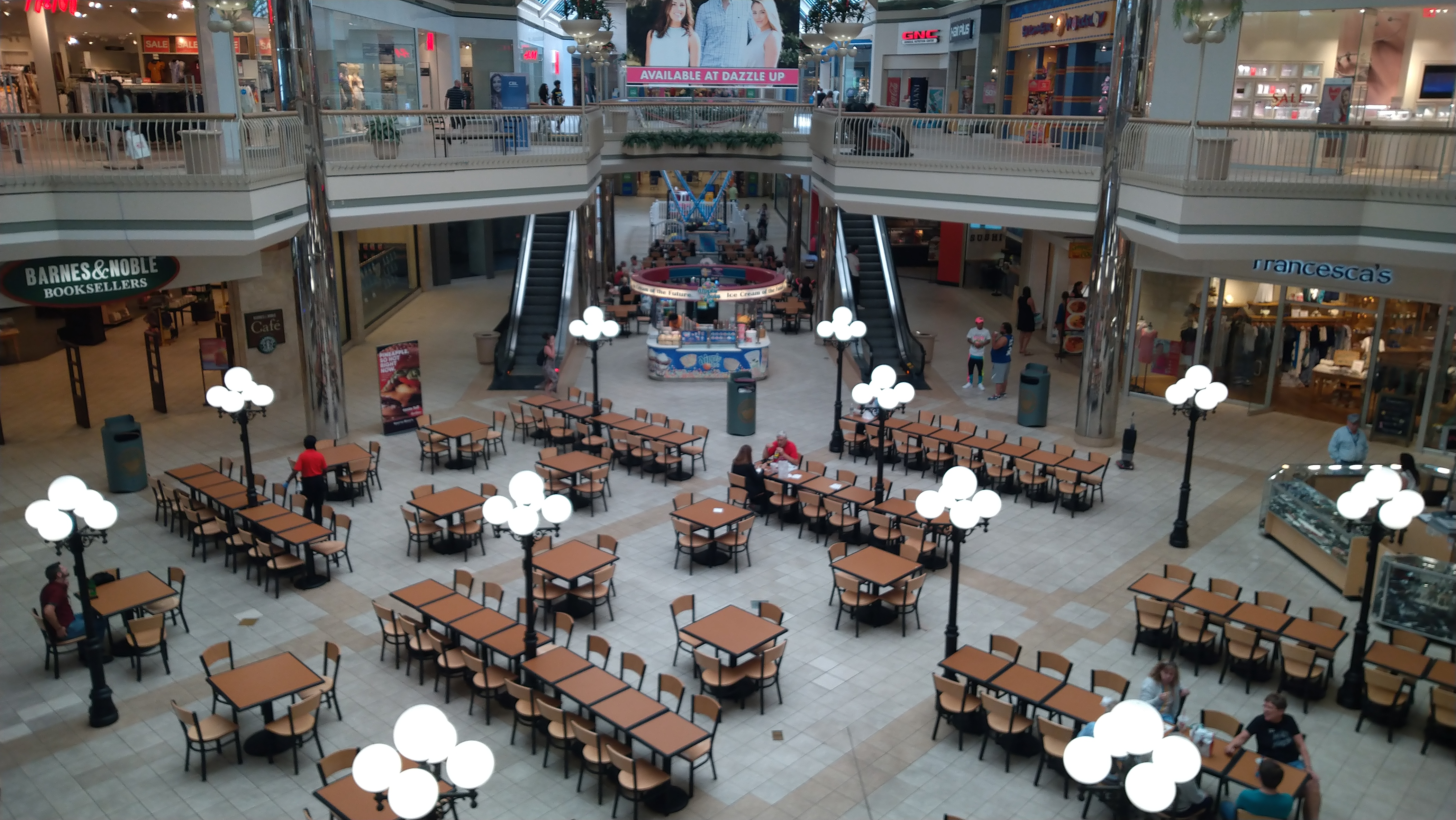 This is the food court at Valley View Mall as seen from the second level.